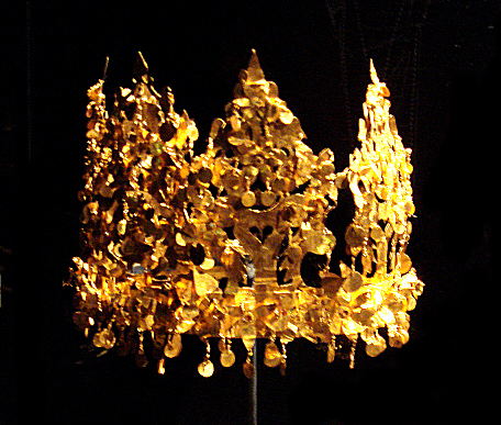 A royal crown from Tillia tepe. Musee Guimet. Personal photograph 2006.